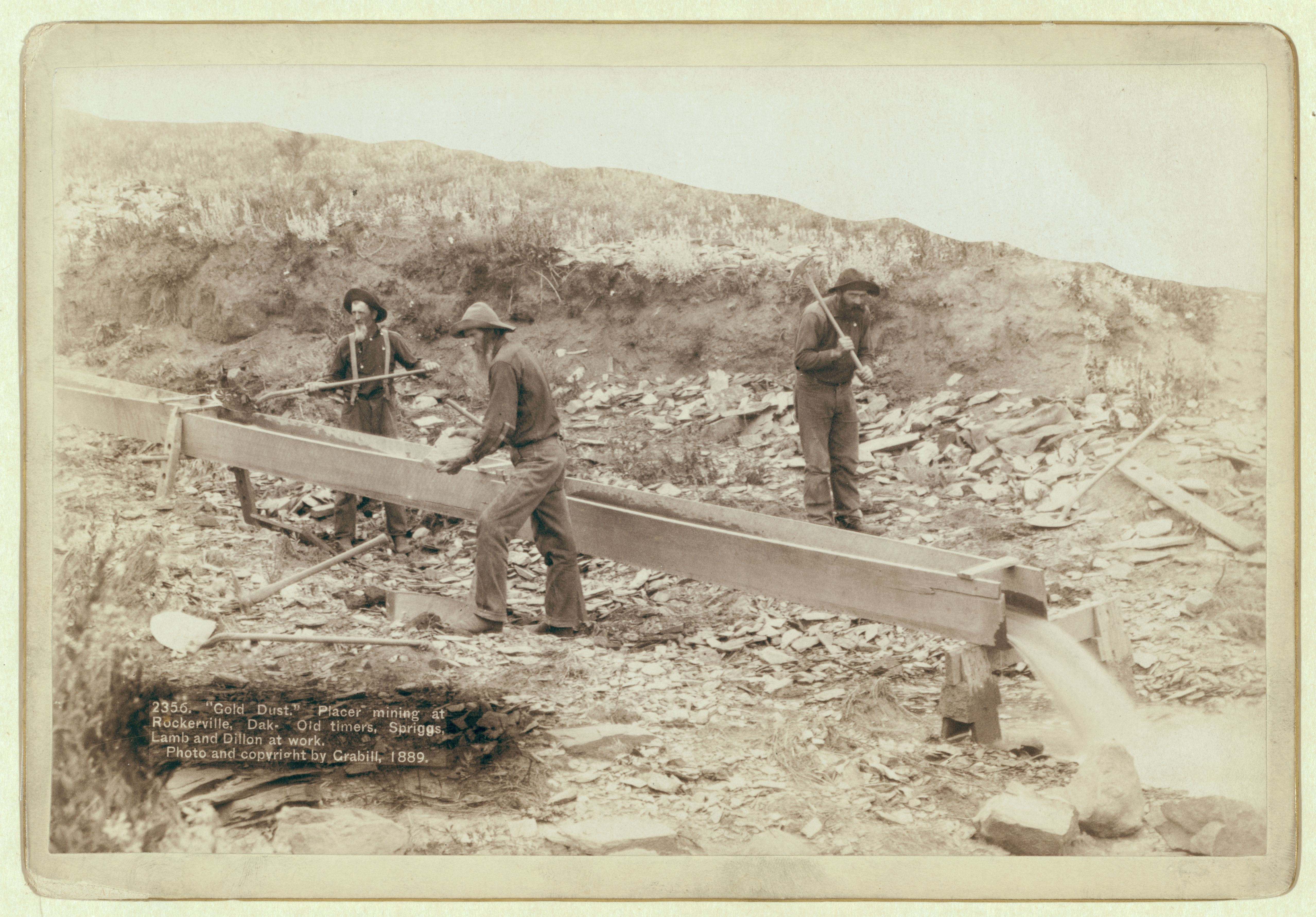 Original title "Gold Dust." Placer mining at Rockerville, Dak. Old timers, Spriggs, Lamb and Dillon at work